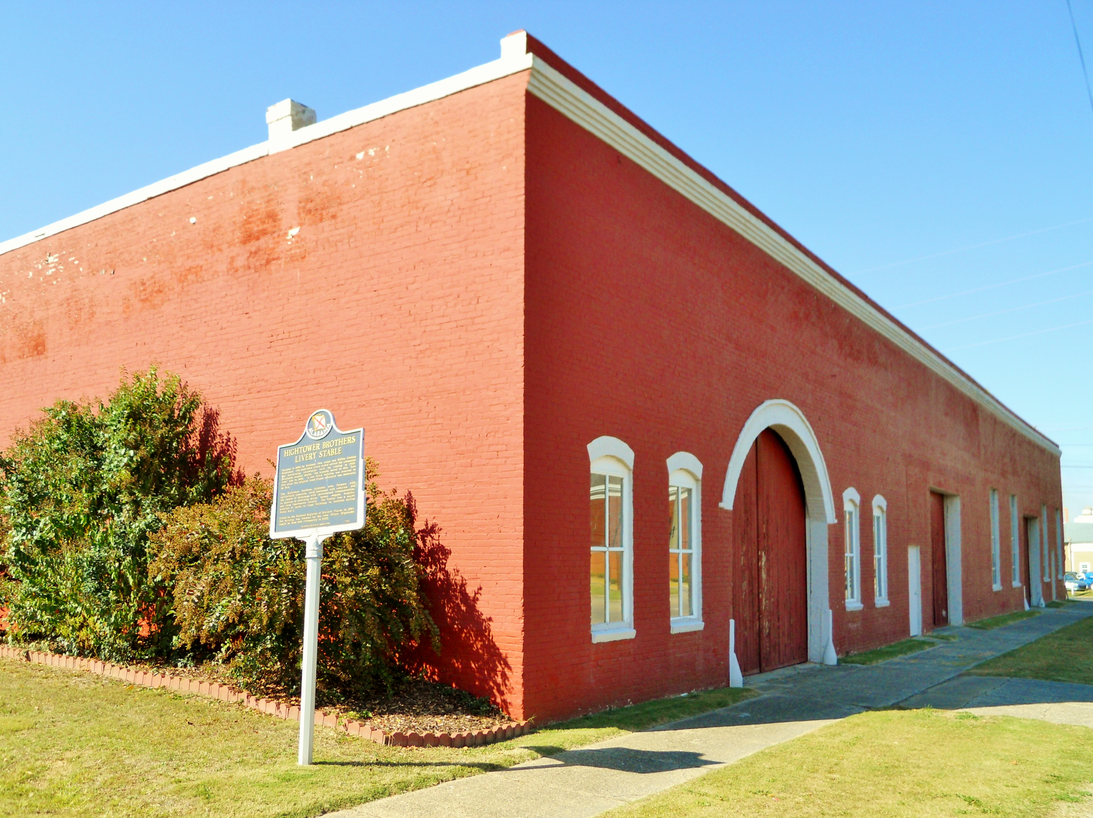 This is a photo of the Hightower Brothers Livery Stable located in Sylacauga, Alabama.